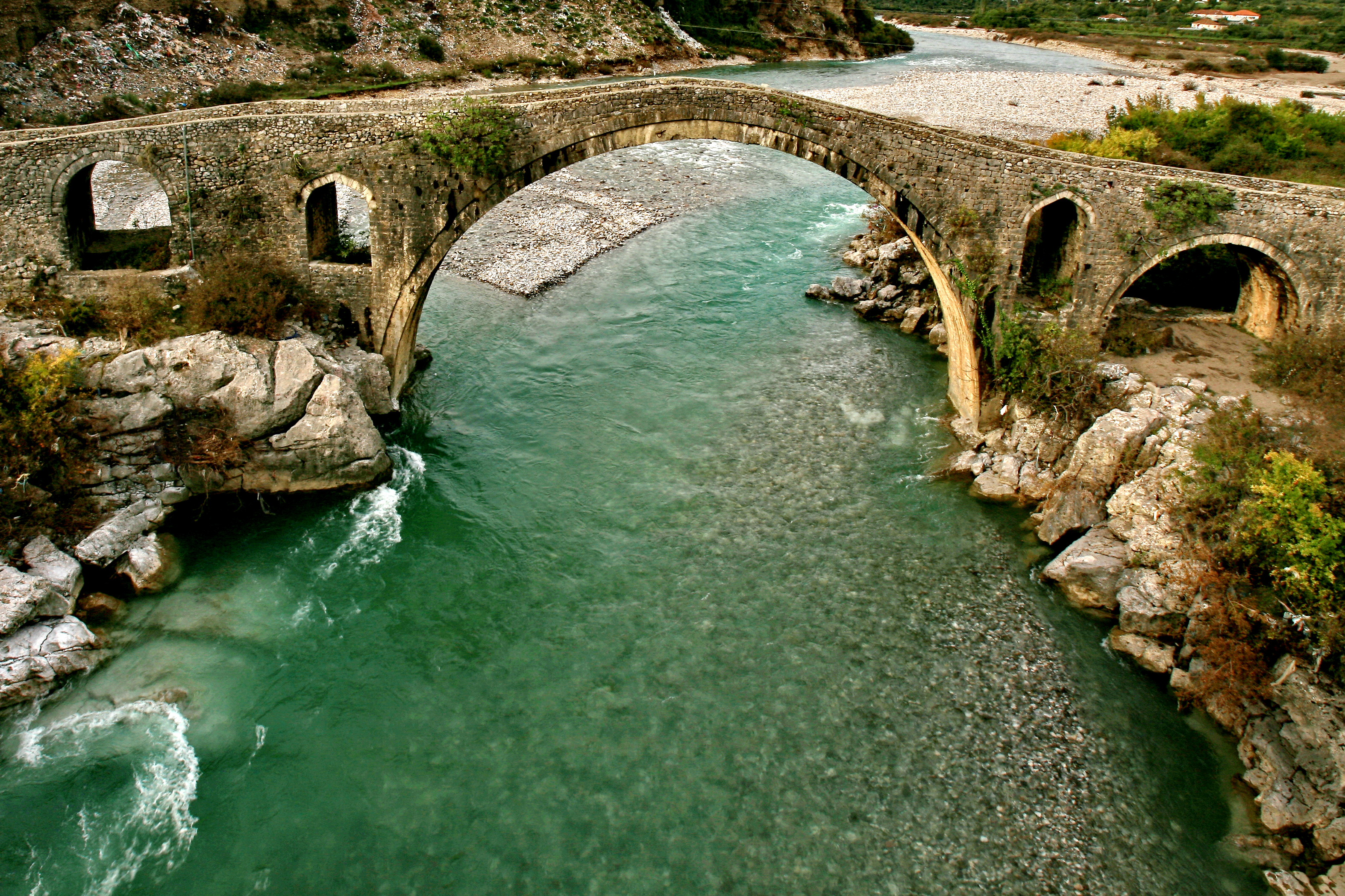 Mesi Bridge on Kiri Stream.